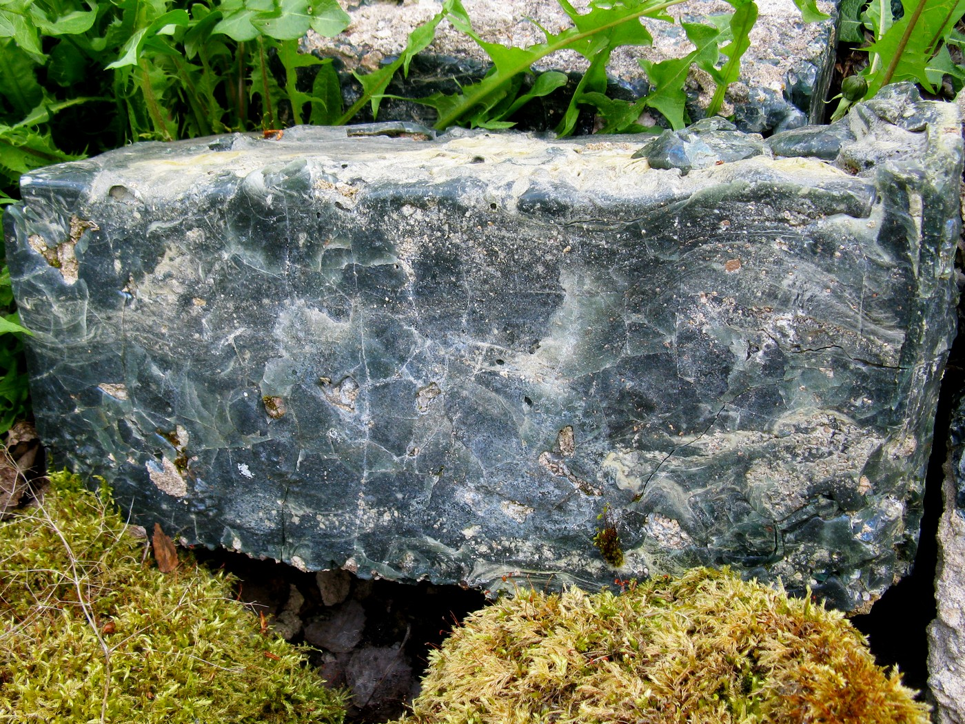 A building brick made from blue slag from a nearby old steel plant. This brick was found in a ruined pigsty in Hasselfors, Sweden, and is about 70x30x30 centimeters. The house was built in the early 1900, so the brick was made around that time.